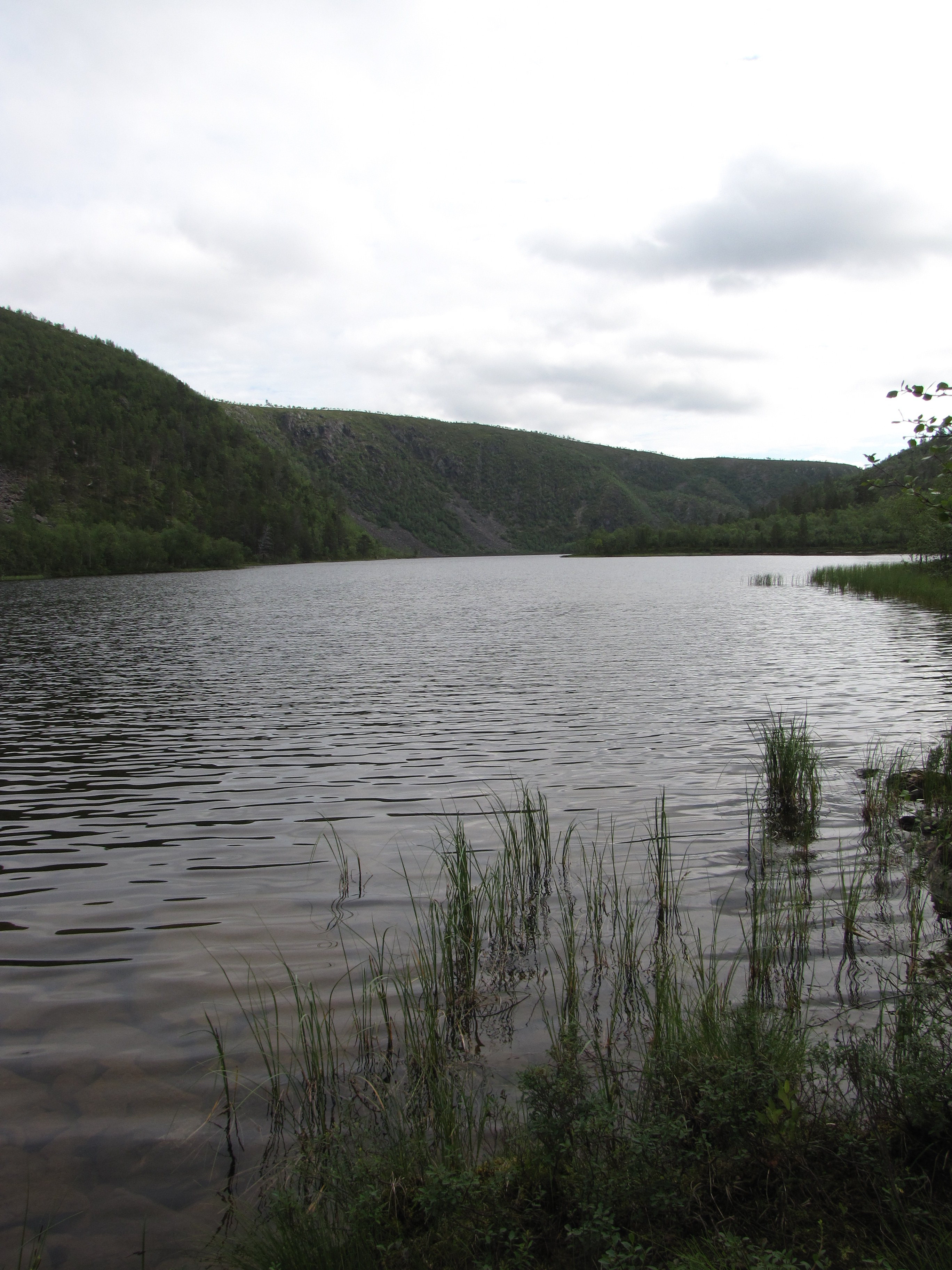 A view from bank of the river Kevojoki